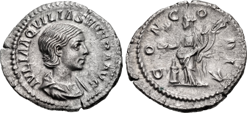 Aquilia Severa. Augusta, AD 220-221 & 221-222. AR Denarius (20mm, 2.72 g, 7h). Rome mint. Struck under Elagabalus, AD 220-222. Draped bust right, hair in simple plaited coif / Concordia standing left, holding double cornucopia, sacrificing out of patera over lighted altar to left; star to left. RIC IV 225 (Elagabalus); Thirion 476; RSC 2a. Lightly toned with residual luster. In NGC encapsulation 5769053008, graded Ch AU, Strike: 4/5, Surface: 4/5. Struck on a broad flan. A fine style portrait.